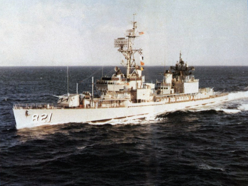 The U.S. Navy destroyer USS Johnston (DD-821). Johnston was deployed to the Mediterranean Sea in 1969-70.